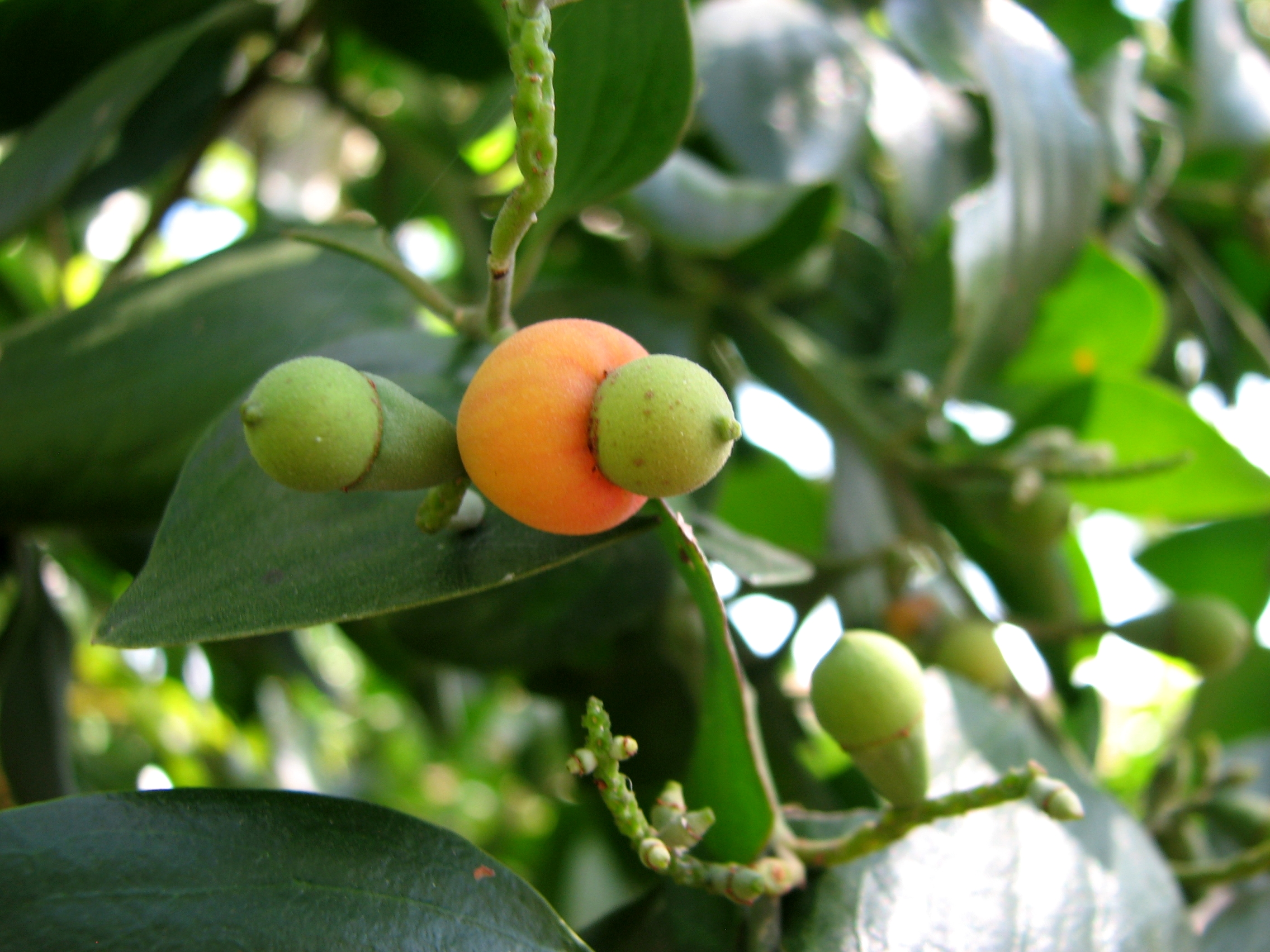 Exocarpos latifolius unripe fruits and a few tiny flowers (identified by User:Macropneuma) Location: Pelican Park, Kewarra Beach, Queensland, Australia